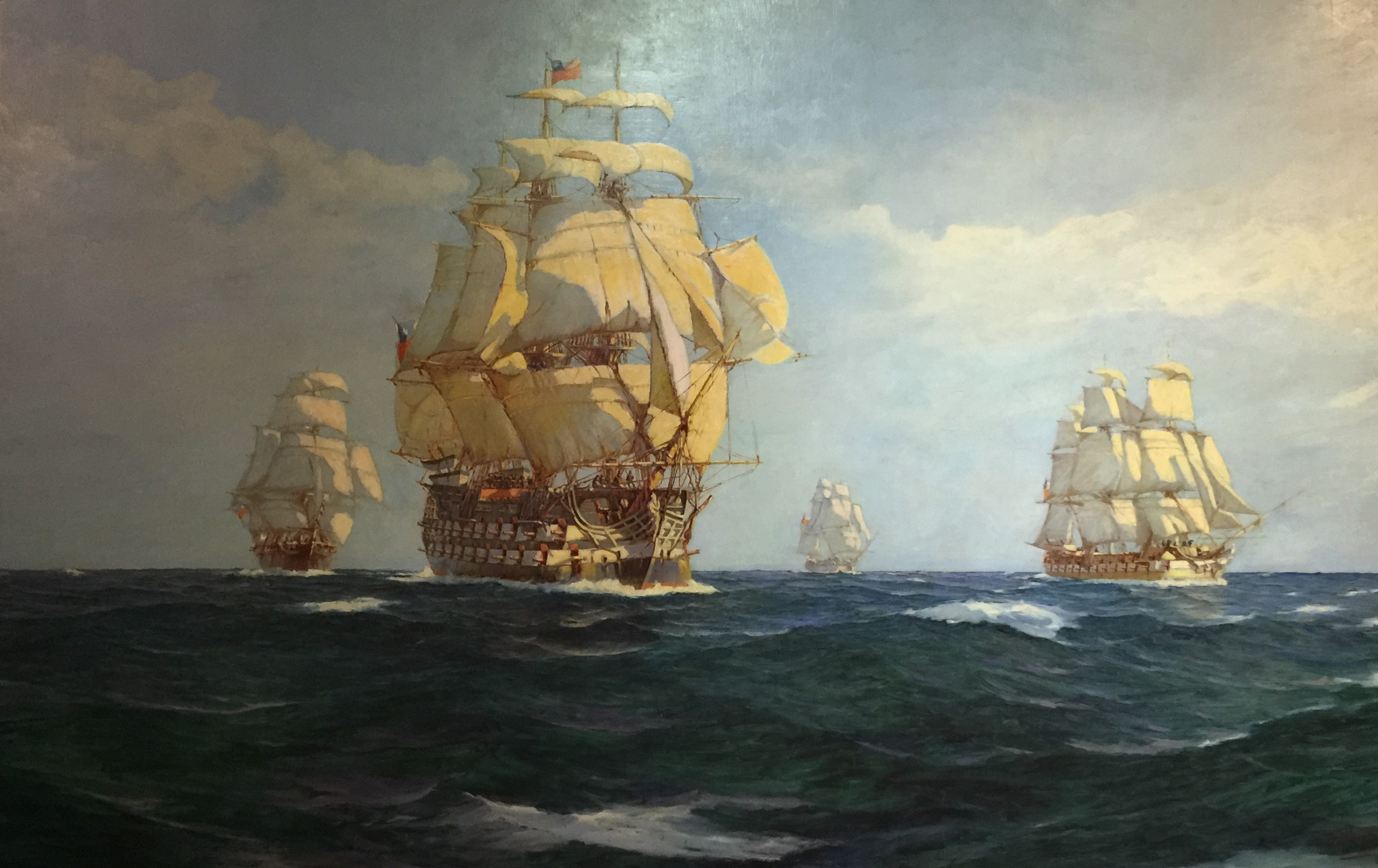 The First Chilean Navy Squadron was the naval force that terminated Spanish colonial rule on the south-west coast of South America[1](p9) and protagonized the most important naval actions in the Latin American wars of independence.[2] The Chilean government organized the squadron in order to carry the war to the Viceroyalty of Perú, then the center of Spanish power in South America, and thus secure the independence of Chile and Argentina.